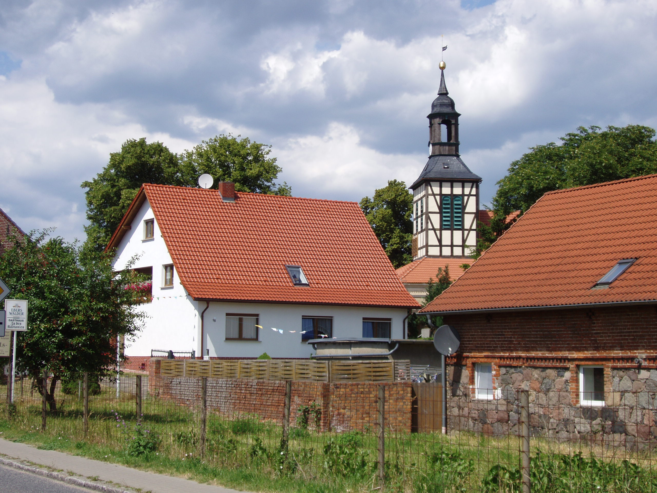 Britz near Eberswalde, Brandenburg